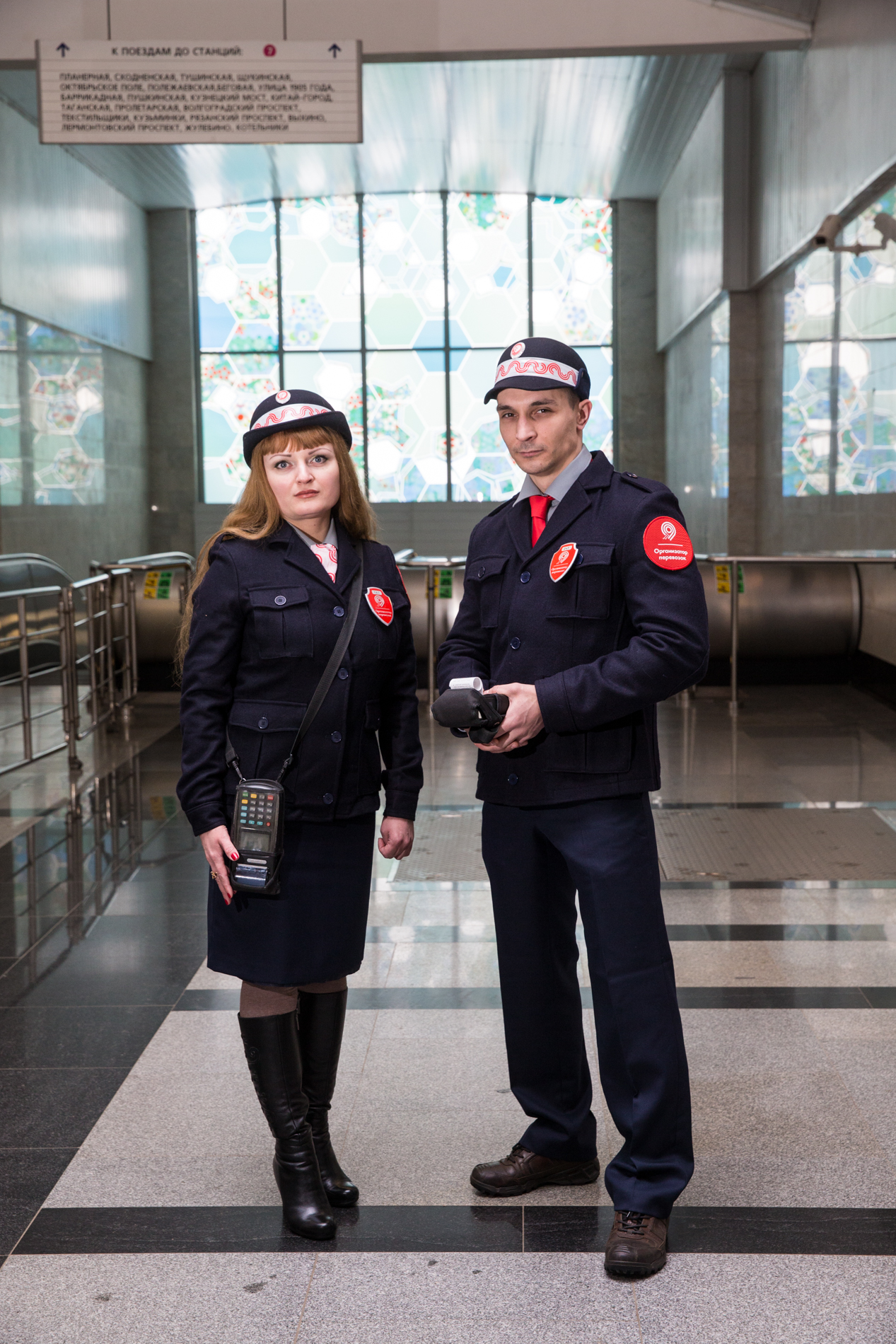 Ticket inspectors of «Organizer of transitions» in Moscow metro